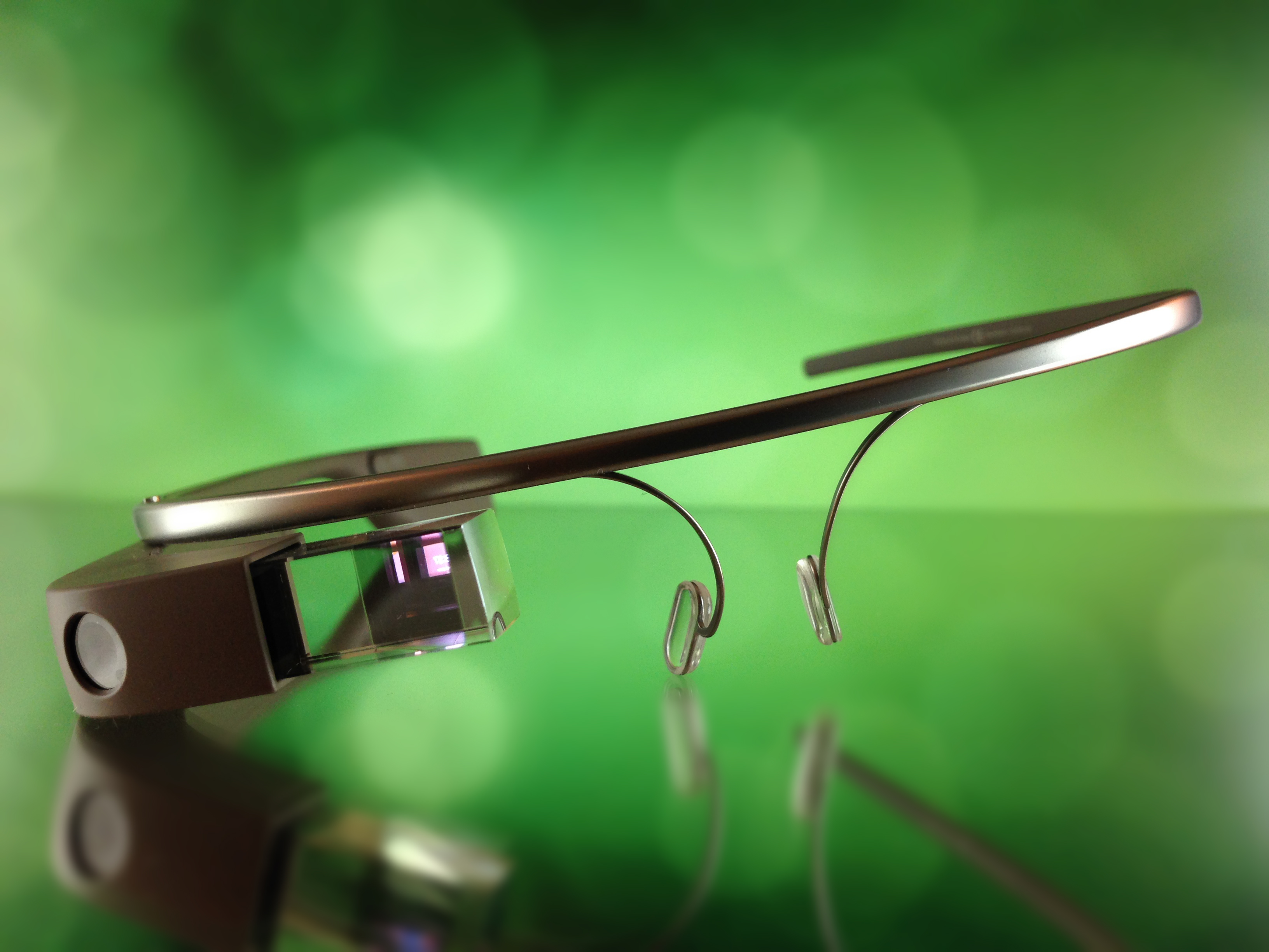 Photo of Google Glass by Dan Leveille